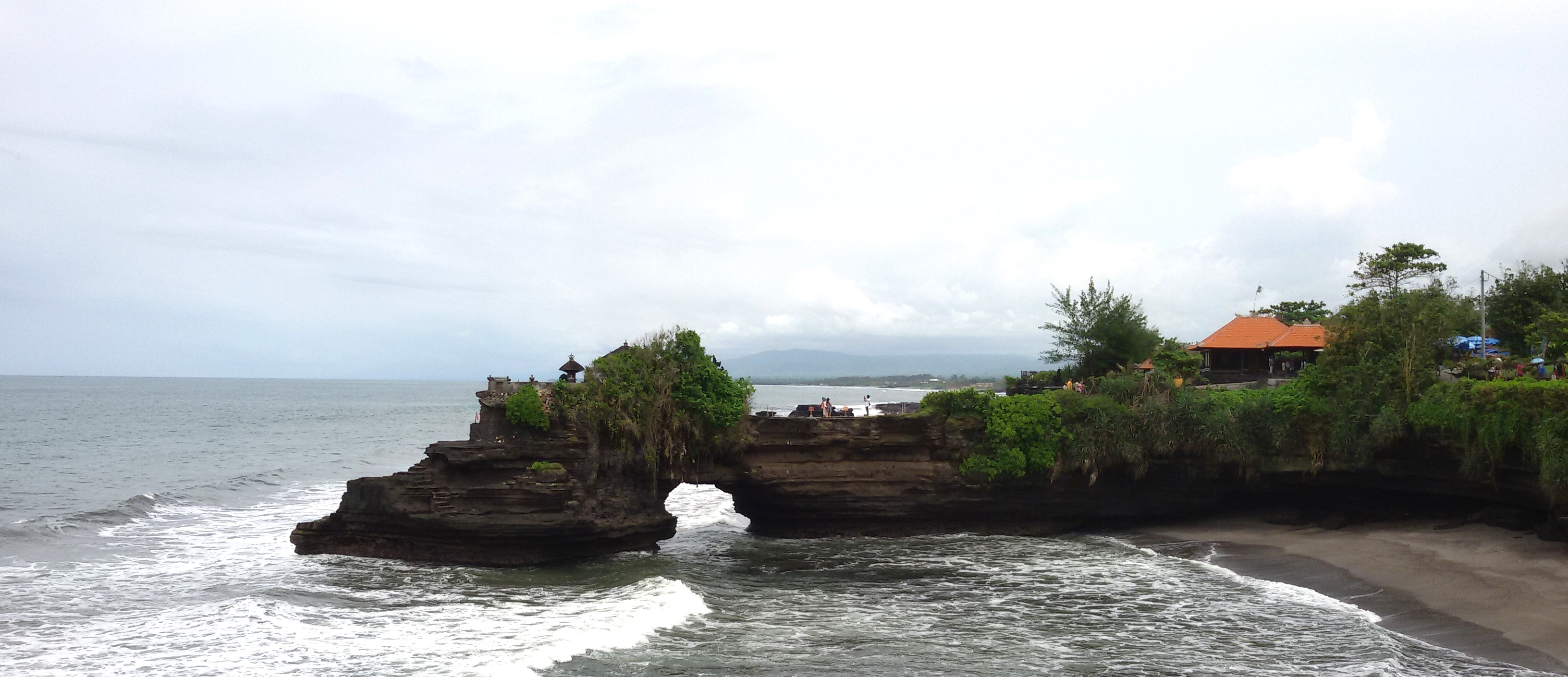 Karang Bolong temple and Cape near Tanah lot temple